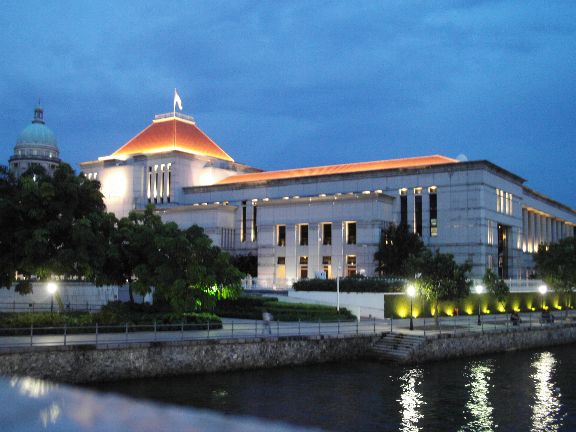 Parliament House, Singapore.